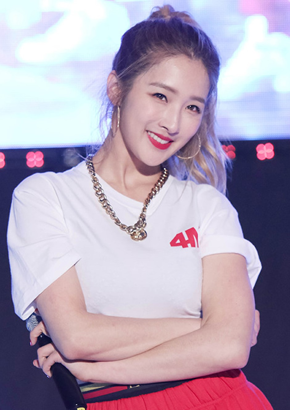 Nam Ji-hyun performing at the Hankuk International Festival on May 24, 2016.